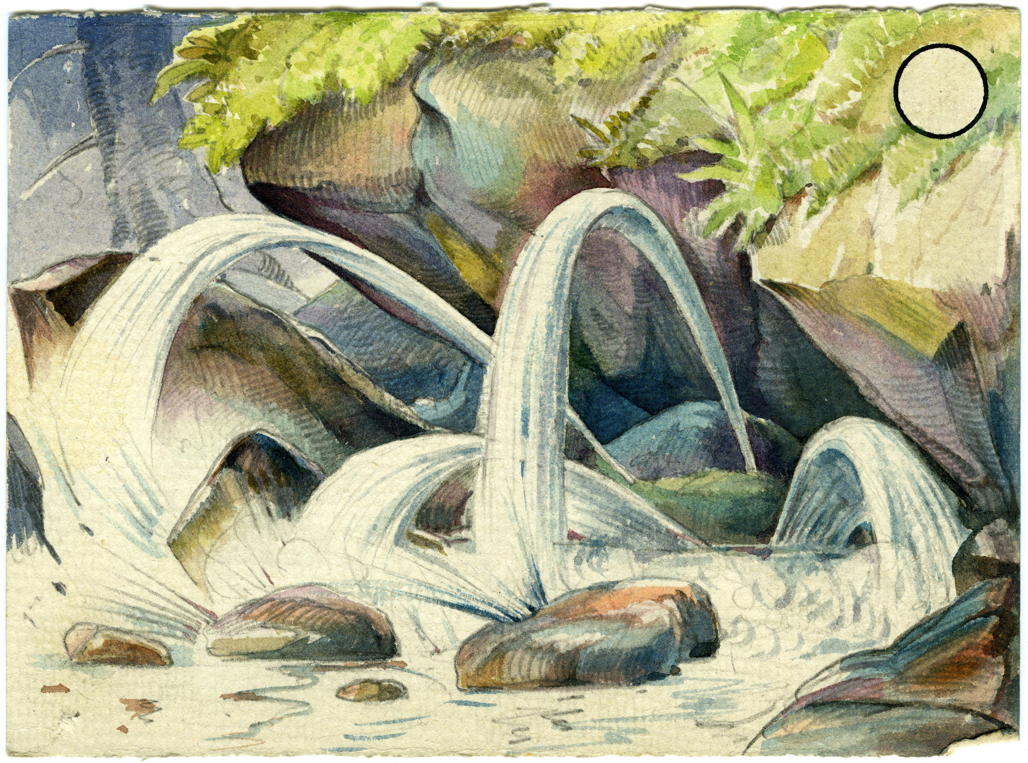 Korzhev M. Eskiz fontana